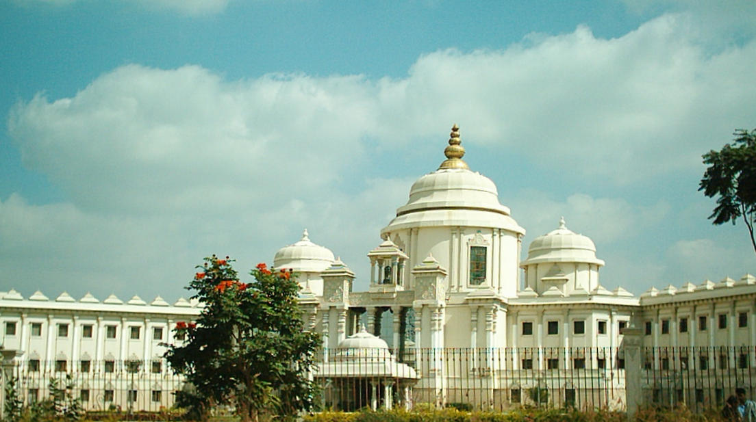 Sathya Sai Super Speciality Hospital, Banglore, India.